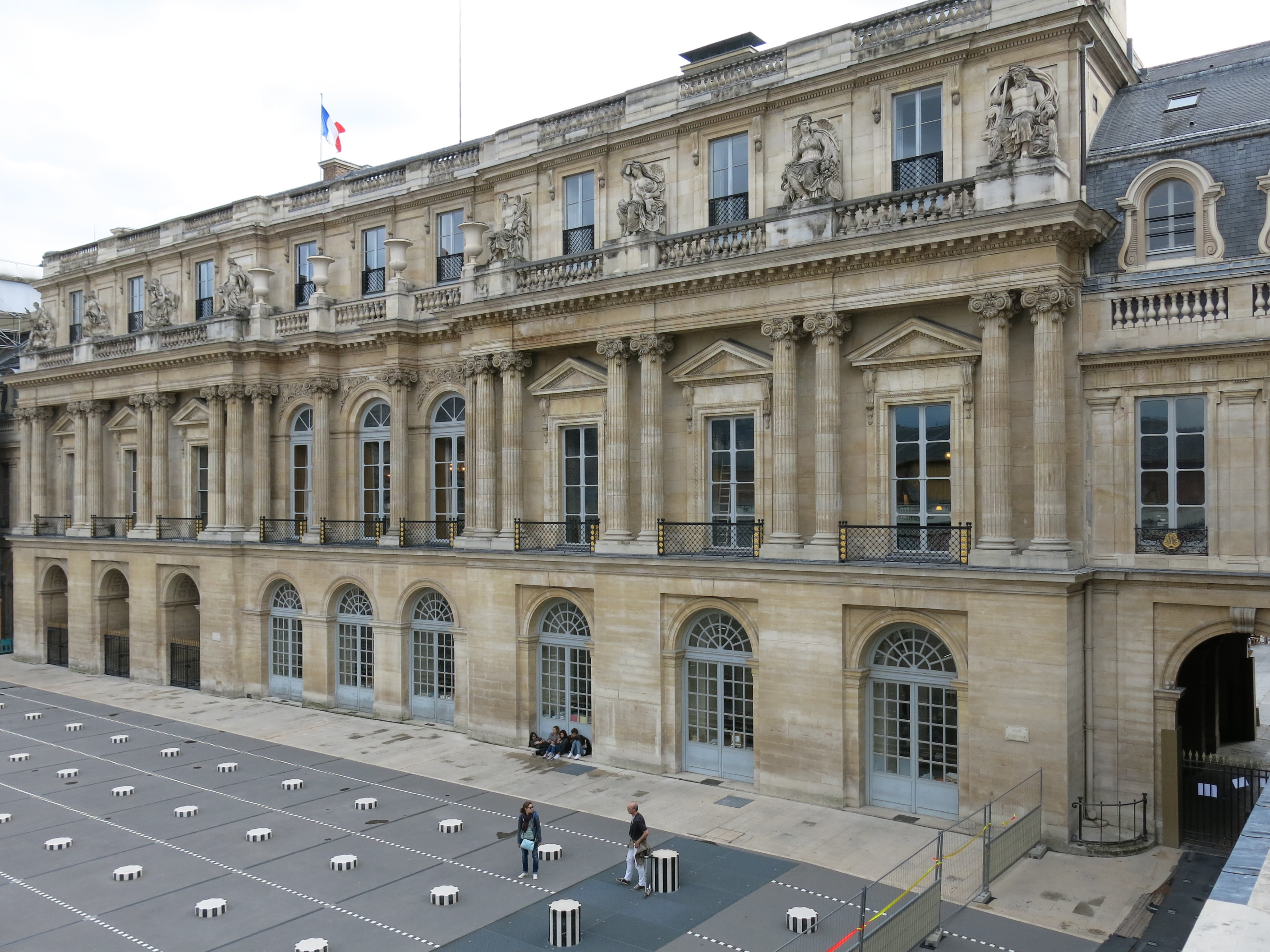 Back facade of the Conseil d'État in Palais Royal (Paris, France).